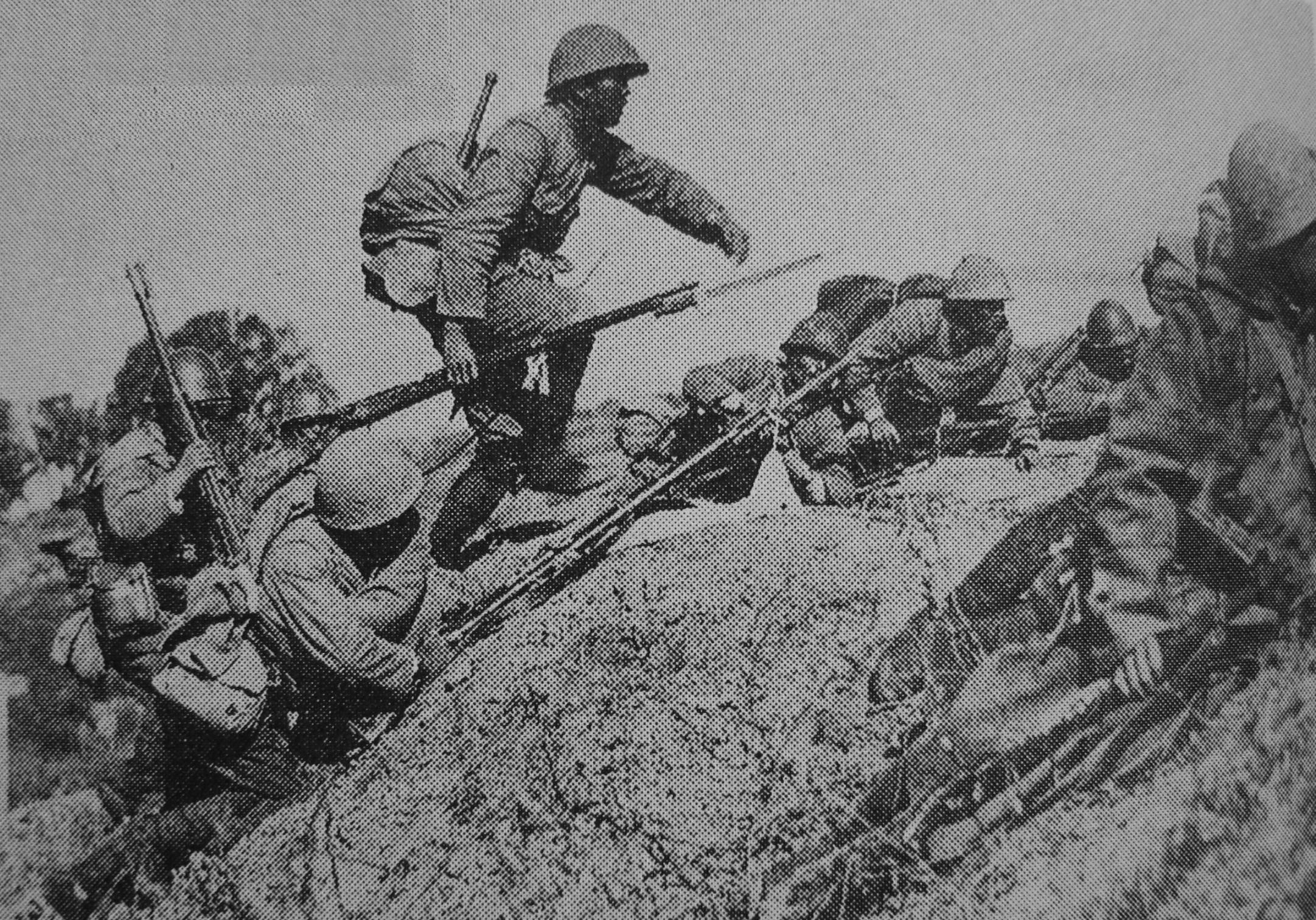 Troops of the 18th Infantry Regiment at Dachang, China, 1937.